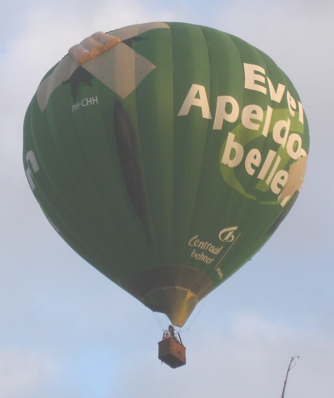 Balloon with insurance slogan